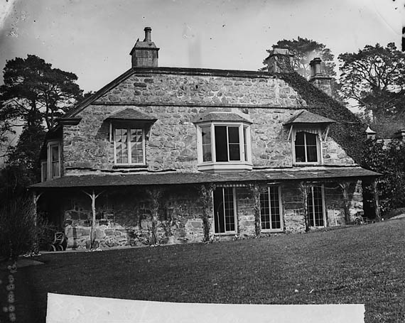 1 negative : glass, wet collodion, b&w ; 10 x 12.5 cm.